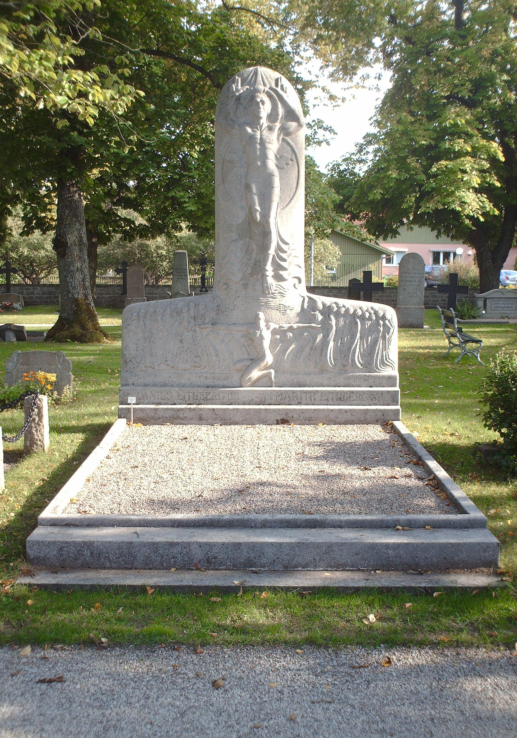 Grave of Nils Lithberg